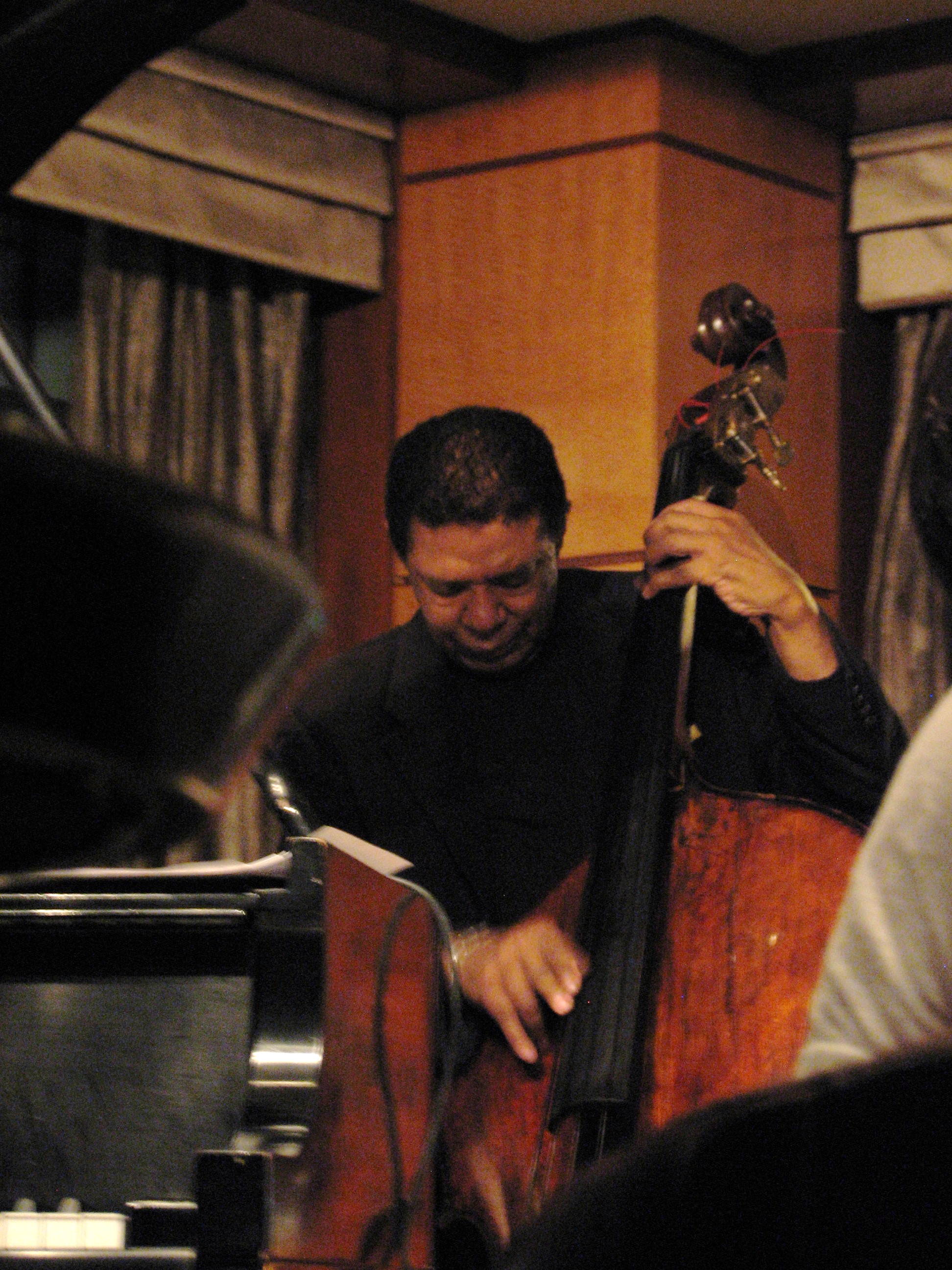 Buster Williams performing on double bass in the Jazz Lounge at Kitano hotel in New York City, April 11, 2008.